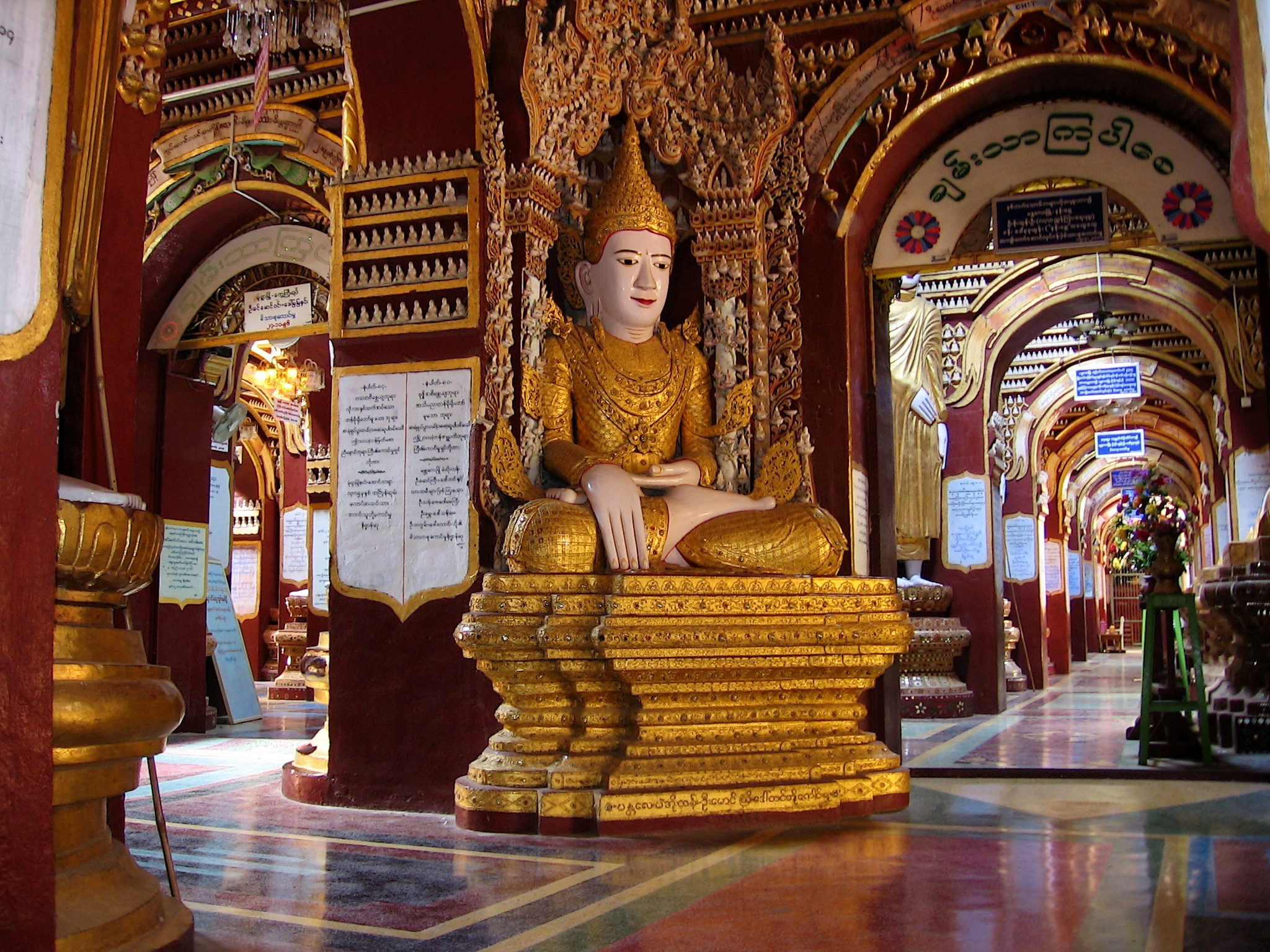 Thanboddhay paya, near Monywa, Myanmar.